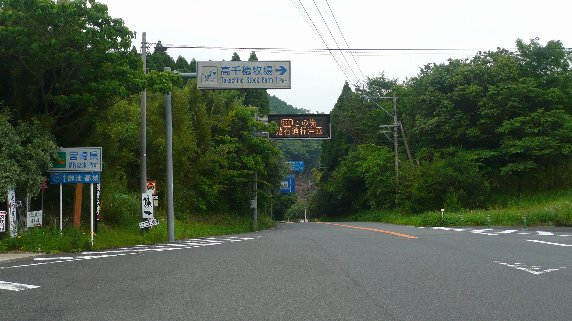 National Route 223 - Kagoshima and Miyazaki Prefectural Boundary (Kirishima City and Miyakonojo City)